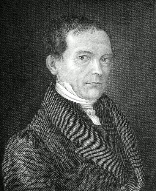 A portrait of theologian Wilhelm Martin Leberecht de Wette.